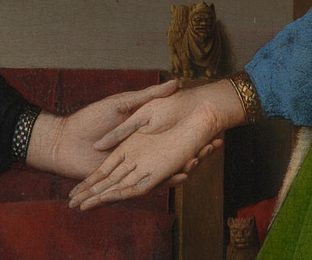 Detail from the The Arnolfini Portrait